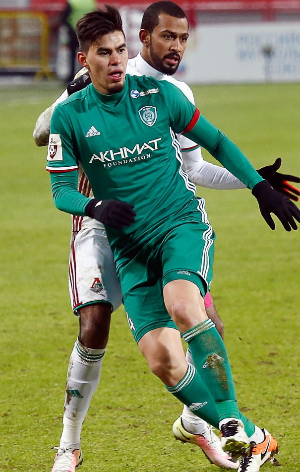 Wilker Ángel with FC Terek Grozny in a game against FC Lokomotiv Moscow.